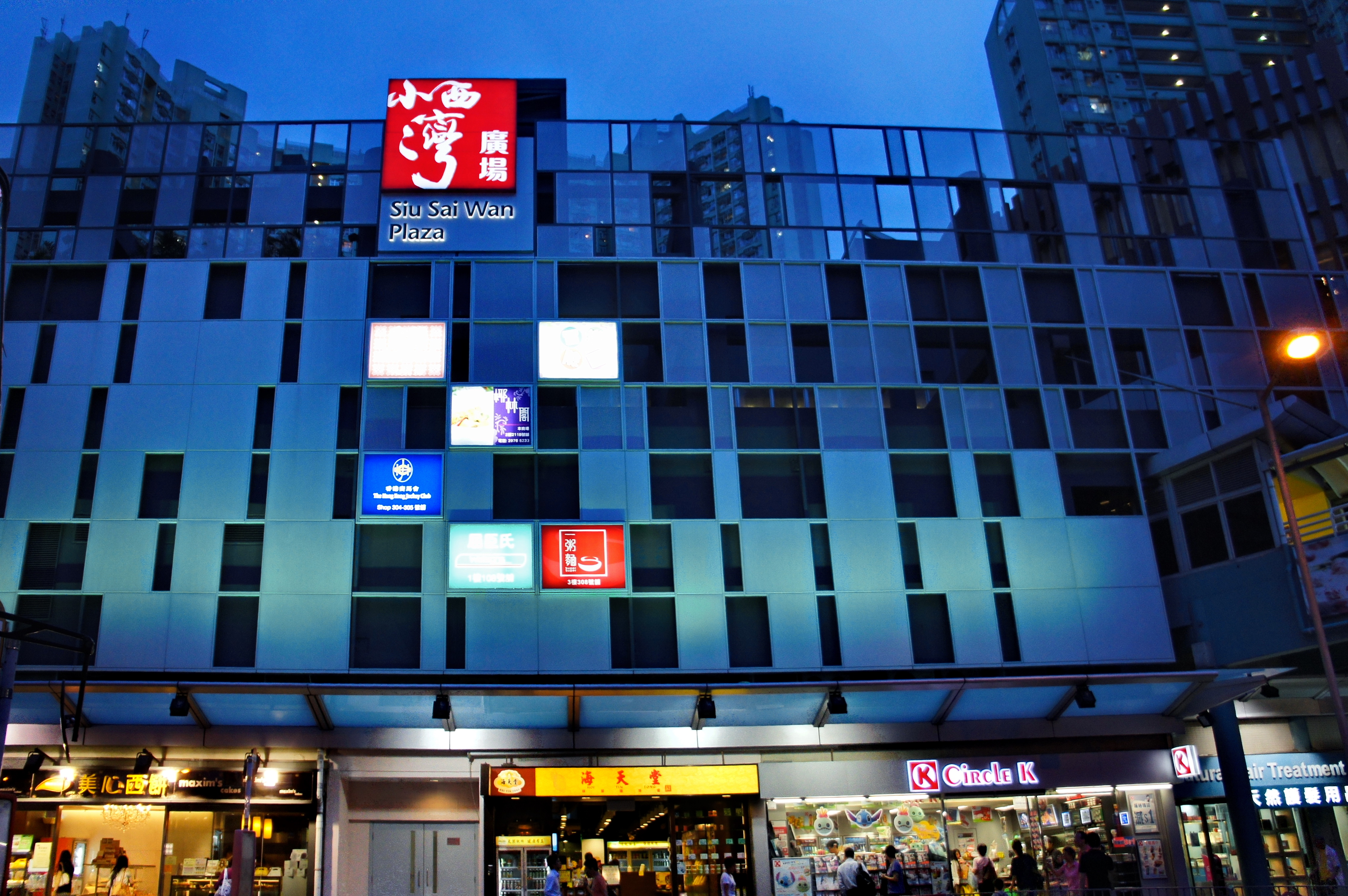 Siu Sai Wan Plaza at dusk, Hong Kong.